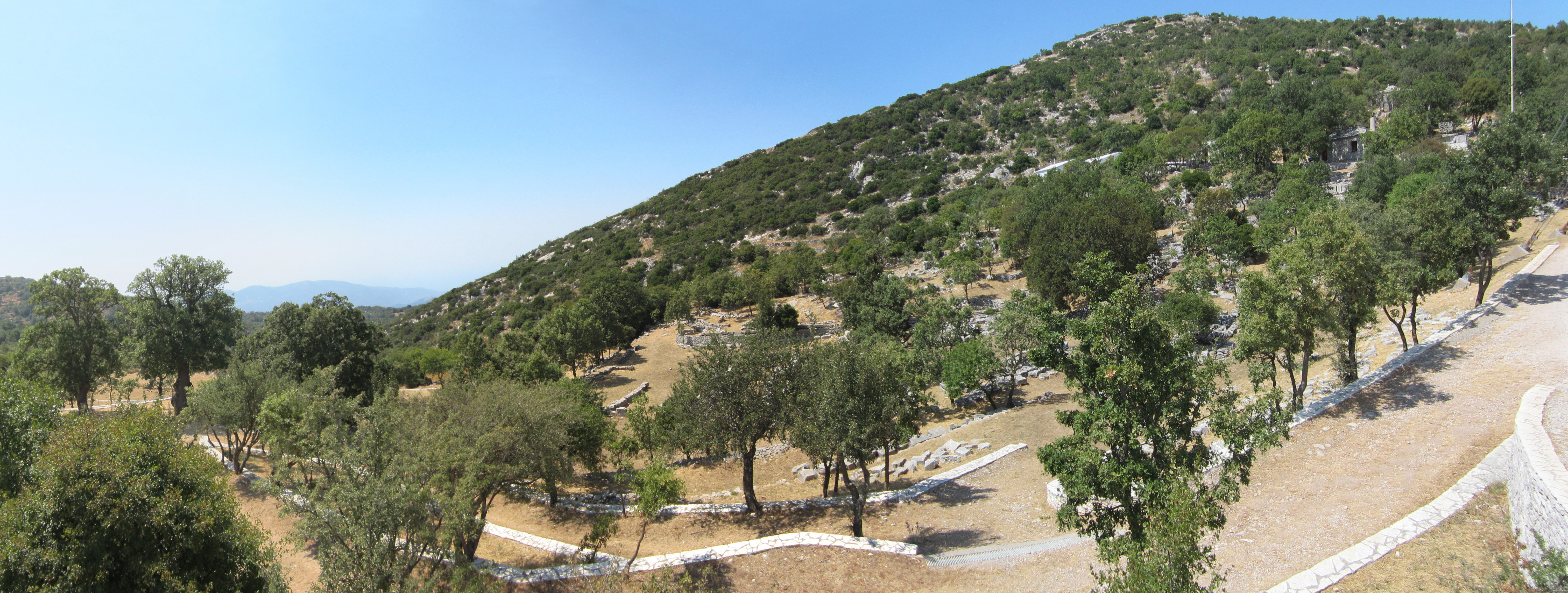 Archaeological area of Bassae (Bassai) around the Temple of Apollo Epicurius (Apollon Epikurios), Greece.